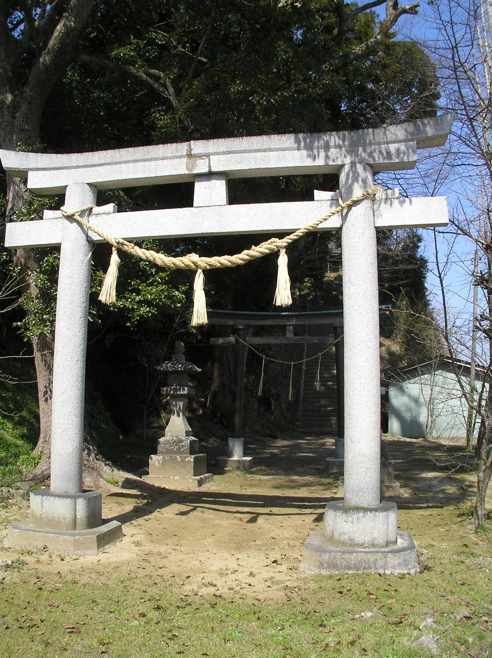 蟹取橋 ～photo by Autumn Snake 【おぉたむすねィく探検隊】